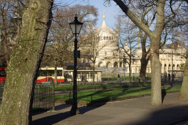 Old Steine, Brighton The Old Steine area was originally used by the town's fishermen for laying out their nets. It began to be developed in the 18th century at the time when Brighton became a very fashionable destination. The Royal Pavilion is in the background.